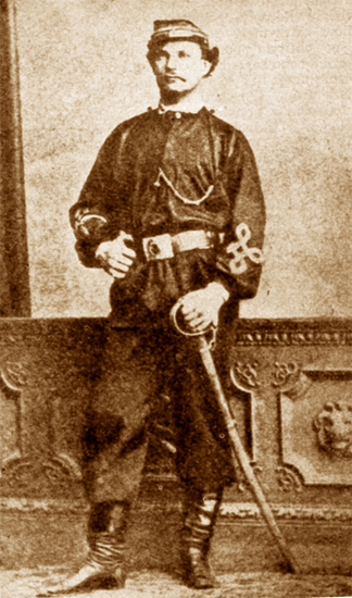 January Uprising Powstanie Styczniowe - Karol Kalita-Rębajło , Polish Oficer, participiant of insurrection